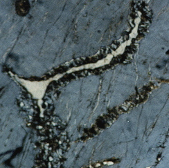 Color photomicrograph showing a portion of a fractured K-feldspar megacryst (gray), which has myrmekite bordering interior fractures and a central quartz ribbon (white). Courtesy Dr. L.G. Collins